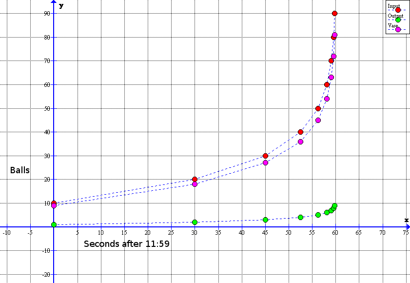 A graph showing the growth of the number of balls put into, remaining in, and removed from the vase in the first ten iterations of the Ross-Littlewood problem with respect to time (the one-minute span from 11:59 to 12:00). The change in the number of balls (for each circumstance) is linear with respect to number of iterations, but exponential with respect to change in time. The limit of each function approaches infinity as the time nears 12:00, suggesting an infinite number of balls both in and out of the vase at 12:00.